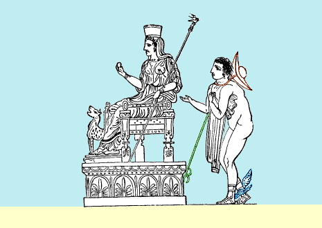 The following woodcut, taken from a fictile vase in the Museo Borbonico at Naples, represents Juno seated on a splendid throne, which is elevated, like those already described, on a basement. She holds in her left hand a sceptre, and in her right the apple, which Mercury is about to convey to Paris with a view to the celebrated contest for beauty on Mount Ida. Mercury is distinguished by his Talaria, his Caduceus, and his petasus thrown behind his back and hanging by its string. On the right side of the throne is the representation of a tigress or panther.